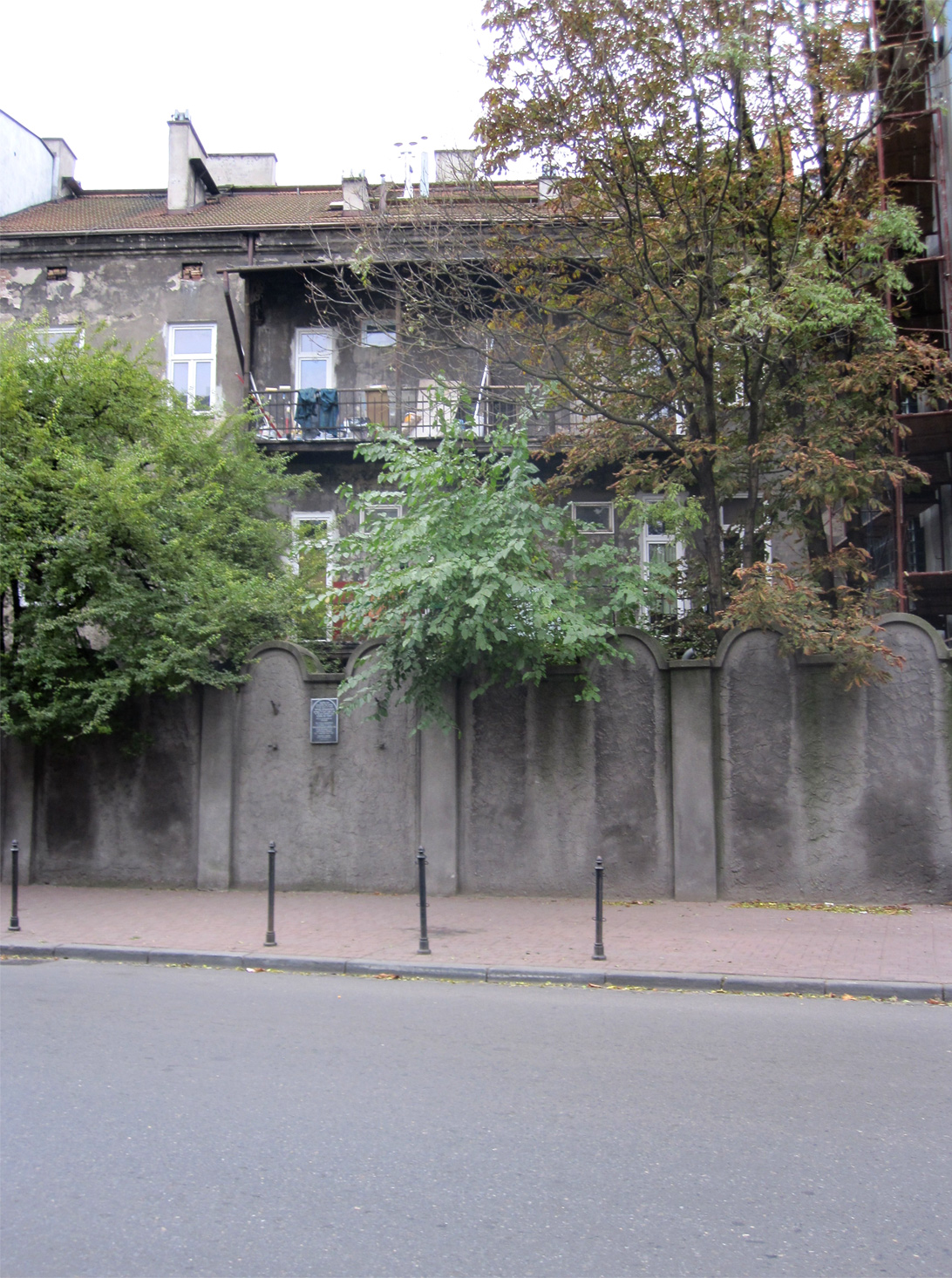 Remains of the wall surrounding the jewish ghetto in Podgorze (Krakow, Poland).